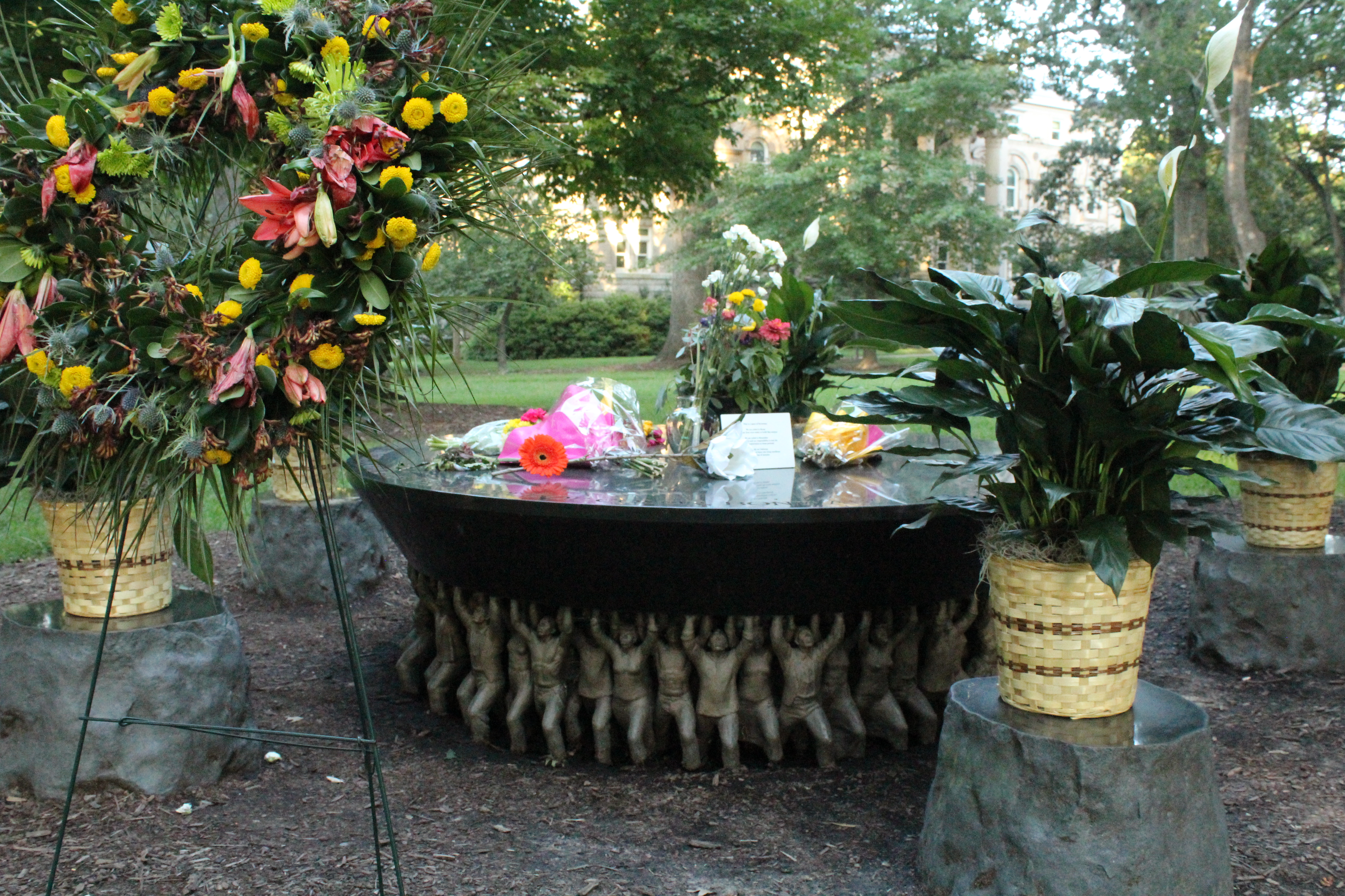 Flowers around the Unsung Founders Memorial at the University of North Carolina at Chapel Hill